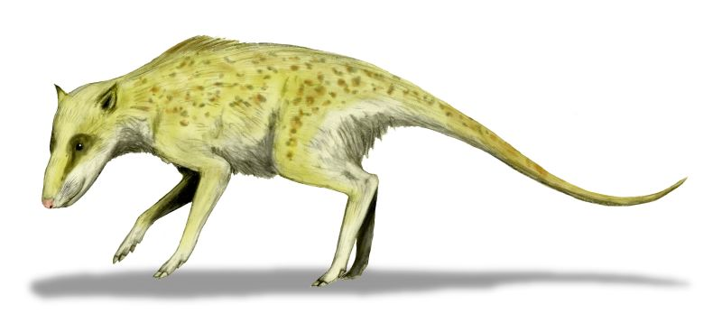 Indohyus major, a herbivorous whale ancestor from the Middle Eocene of Kashmir, pencil drawing, digital coloring